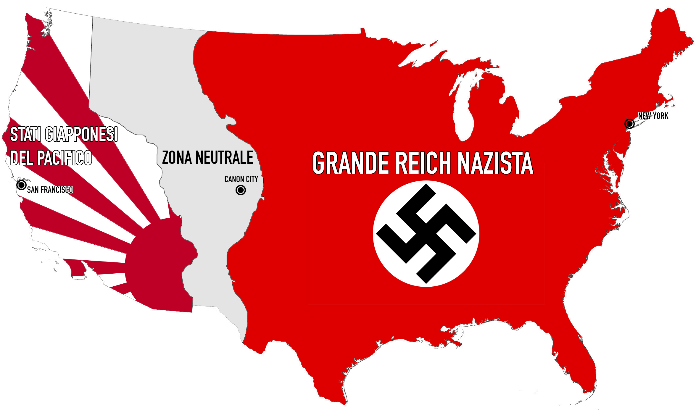 Map of the USA as seen in The Man in the High Castle tv series. Names are in Italian.